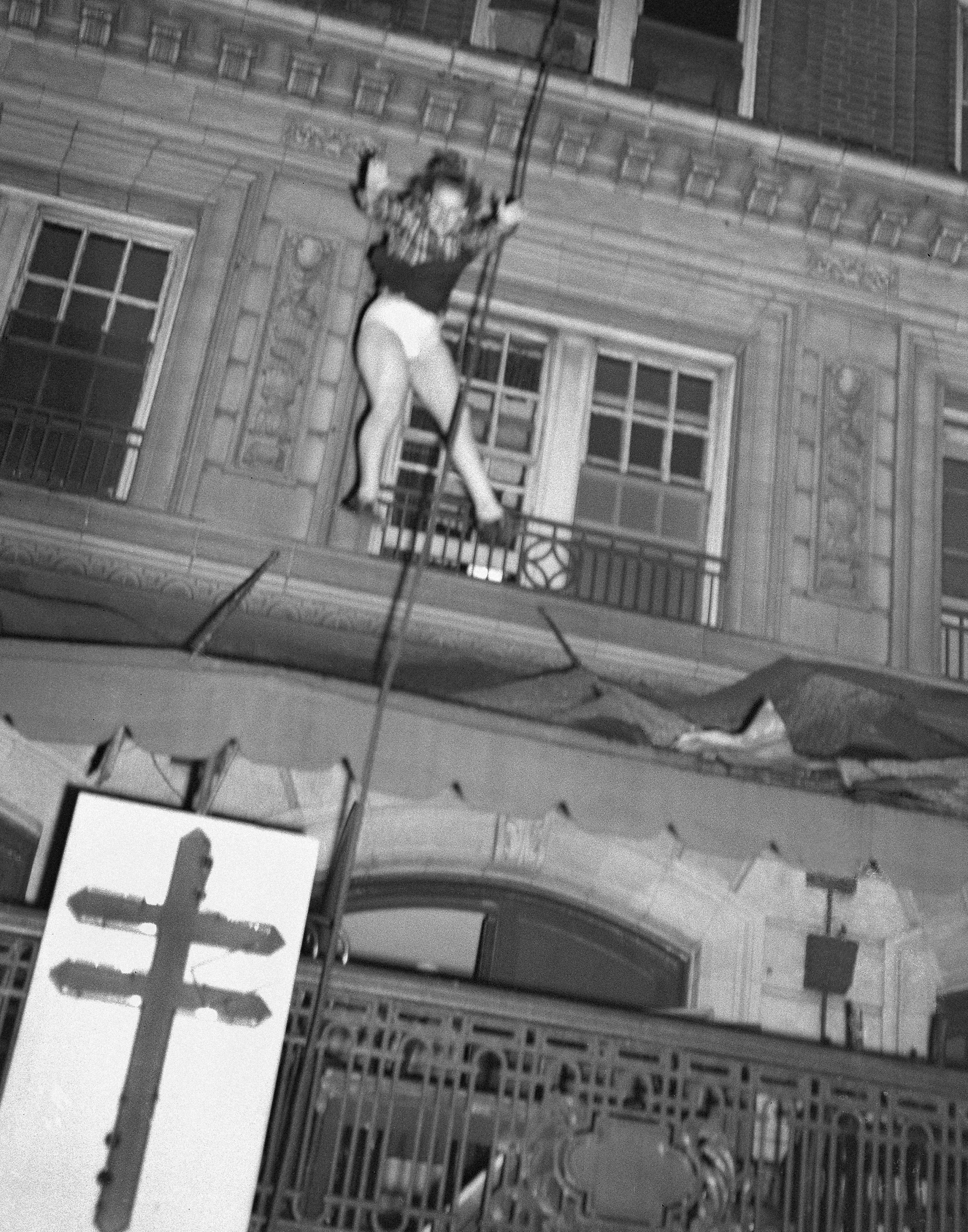 Daisy McCumber falls after leaping from a window to escape the Winecoff Hotel fire. This photograph won the 1947 Pulitzer Prize for Photography.